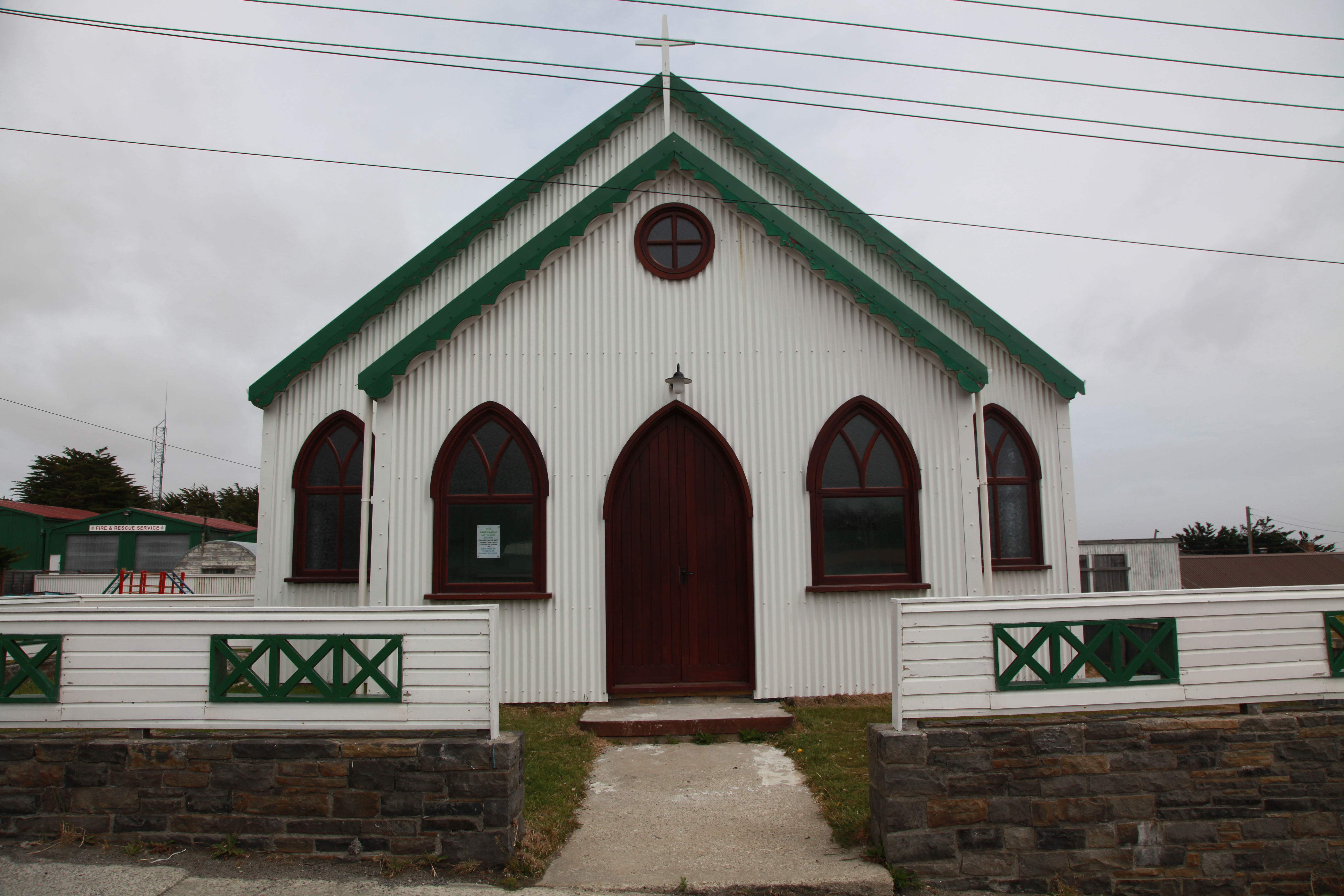 United Free Church, Stanley, East Falkland.